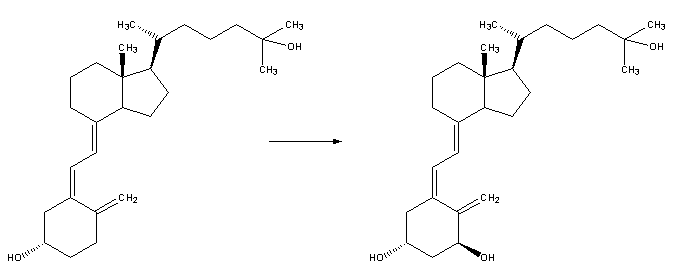 Enzymatic conversion of calcidiol to calcitriol by 25-hydroxyvitamin D3 1-alpha-hydroxylase.